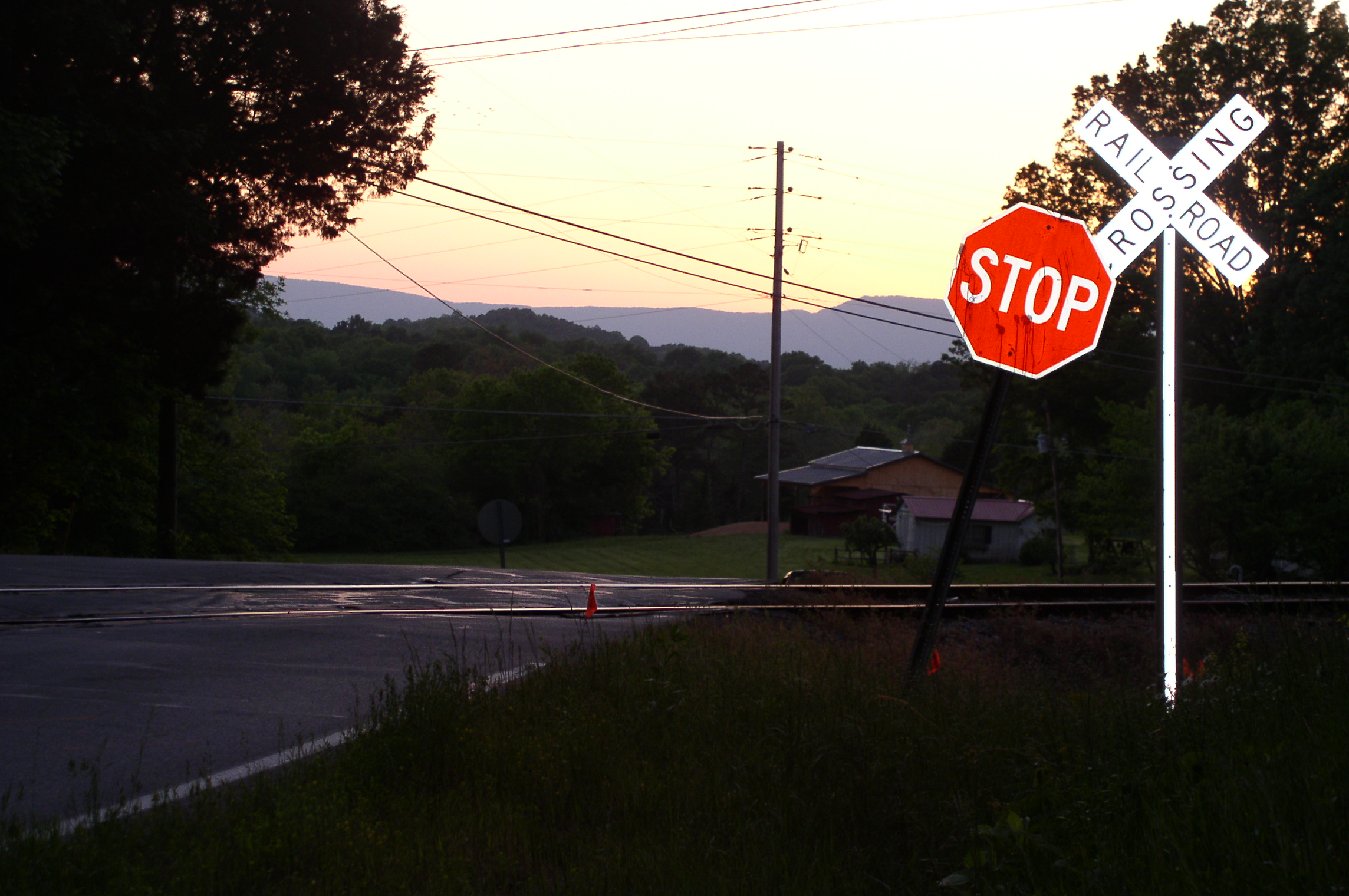 Chickamauga Railroad line crossing in Rock Spring, Georgia. Lookout Mountain is seen in the background of the picture.